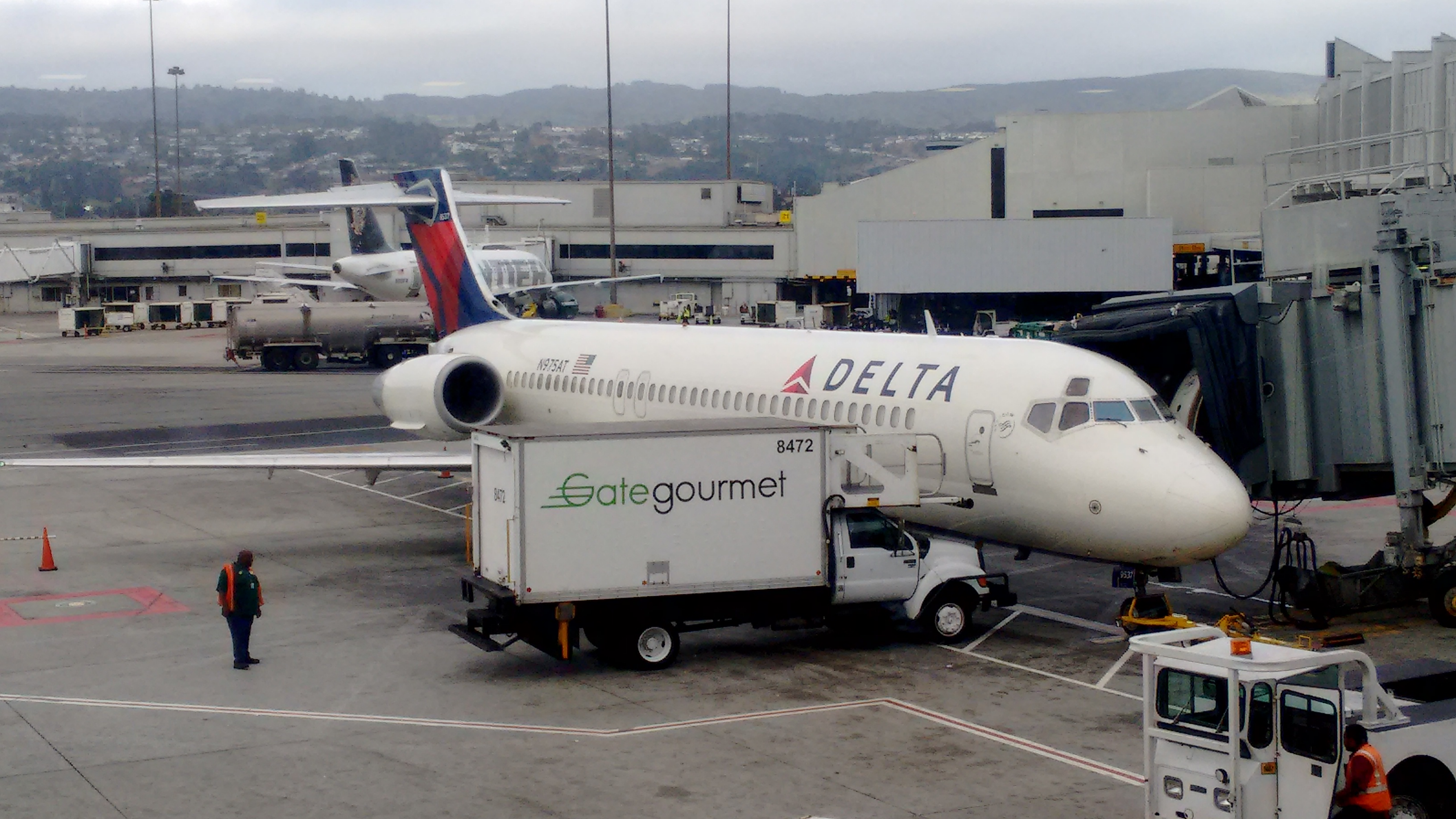 717-200 of Delta Shuttle at SFO